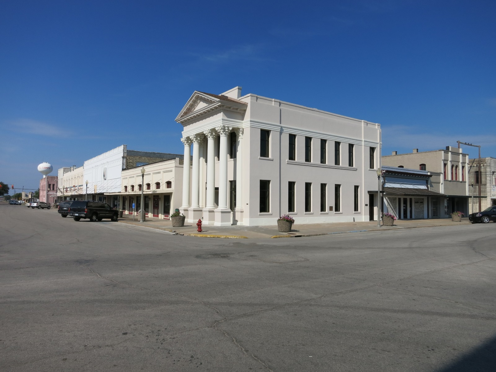 Photo shows buildings in the old business district at N. Washington and E. Monseratte Streets in El Campo, Texas. View is toward the southwest.